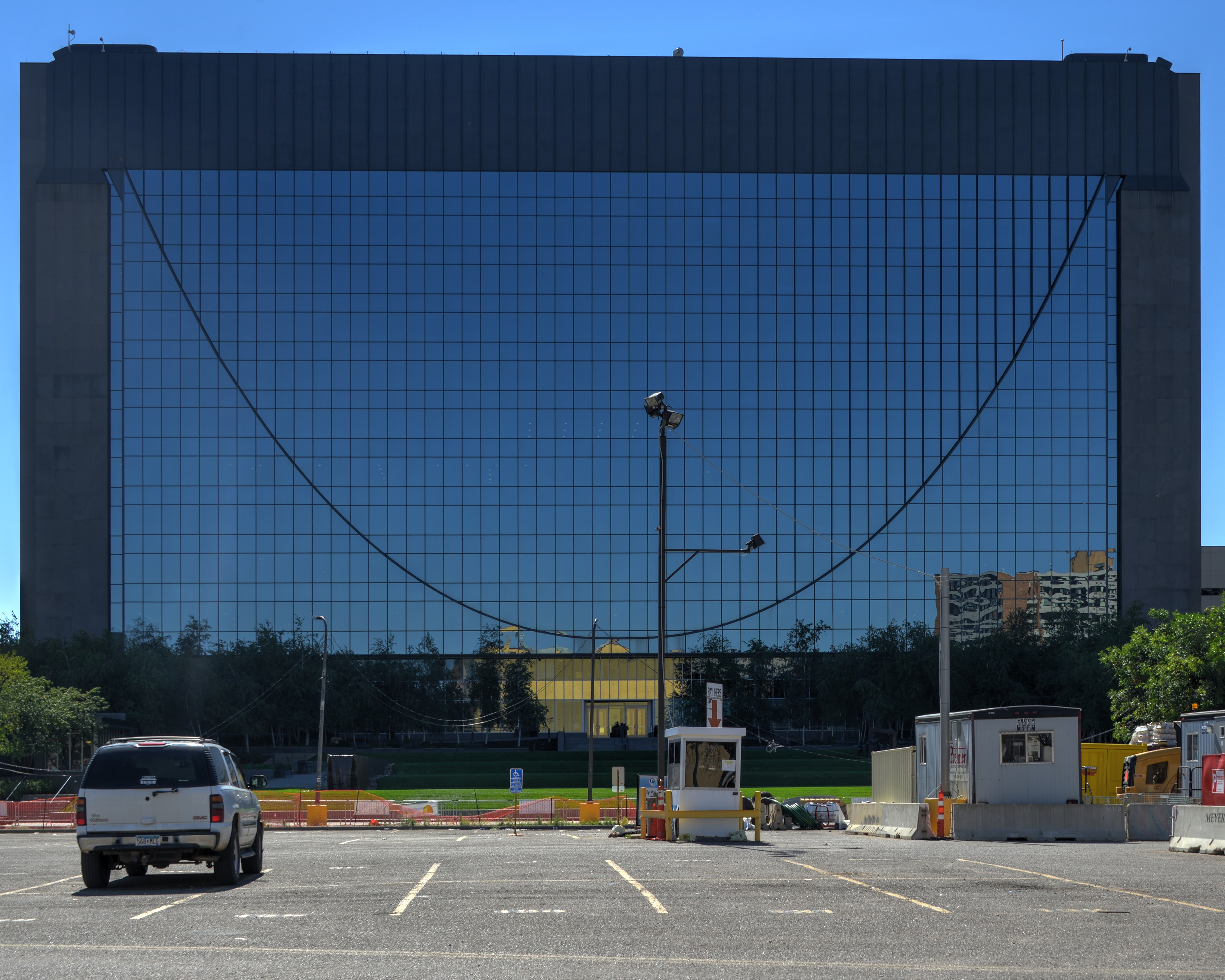 Marquette Plaza, former home to the Minneapolis Federal Reserve Bank.